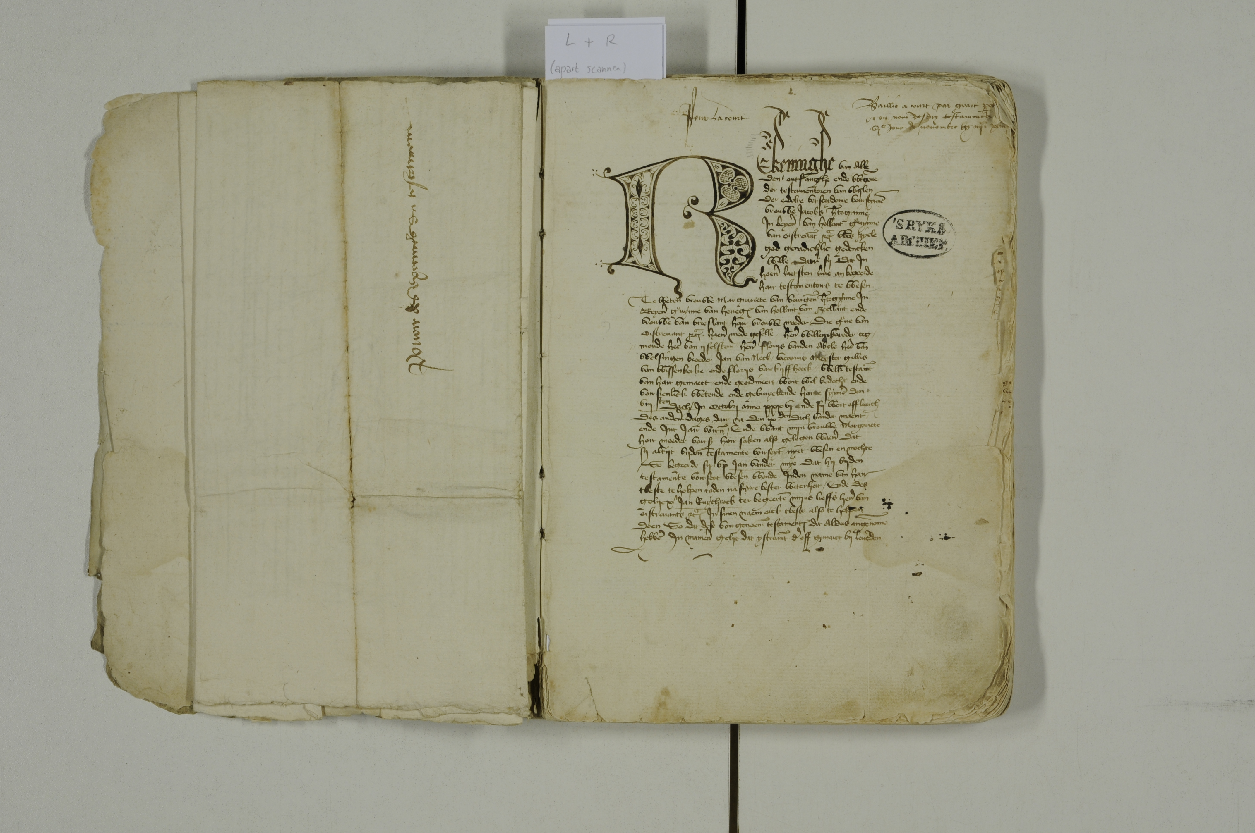 Rekening Jacoba van Beieren